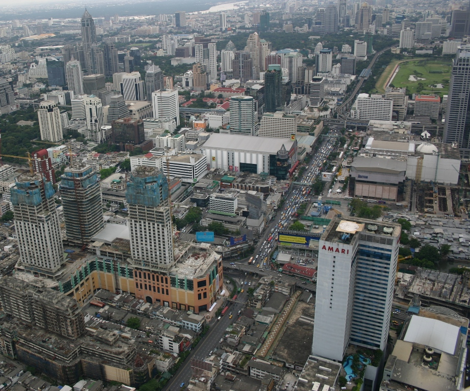 View from the Baiyoke II Tower. Canon EOS 3000 Digital. Date taken: 27.11.2004.